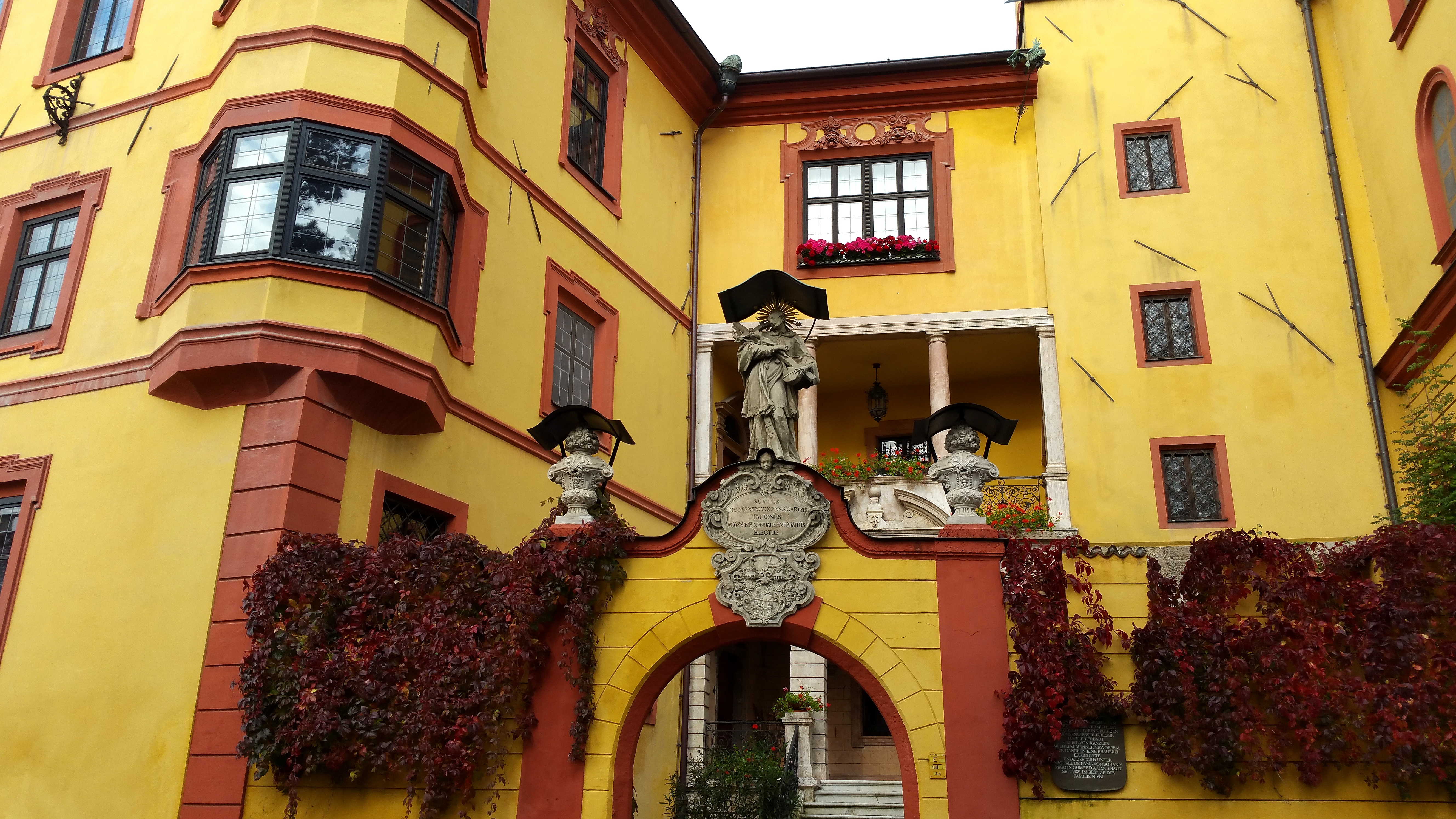 Büchsenhausen Castle at Innsbruck, Austria